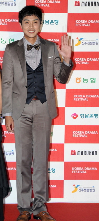 2010 Korea Drama Festival